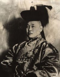 Shirindambyn Namnansüren. prime minister of Autonomous Mongolia from 1912 to 1915 in the government of the Bogd Khan.